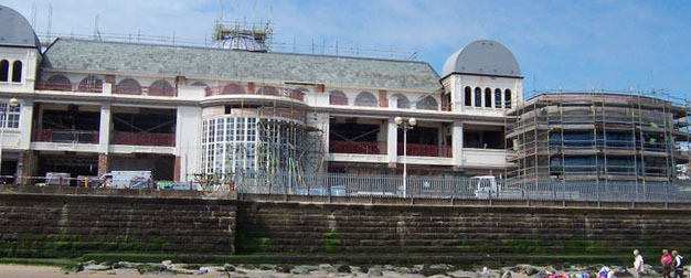 The Spa Pavilion Bridlington, East Riding of Yorkshire, England.The Spa Pavilion undergoing refurbishment.